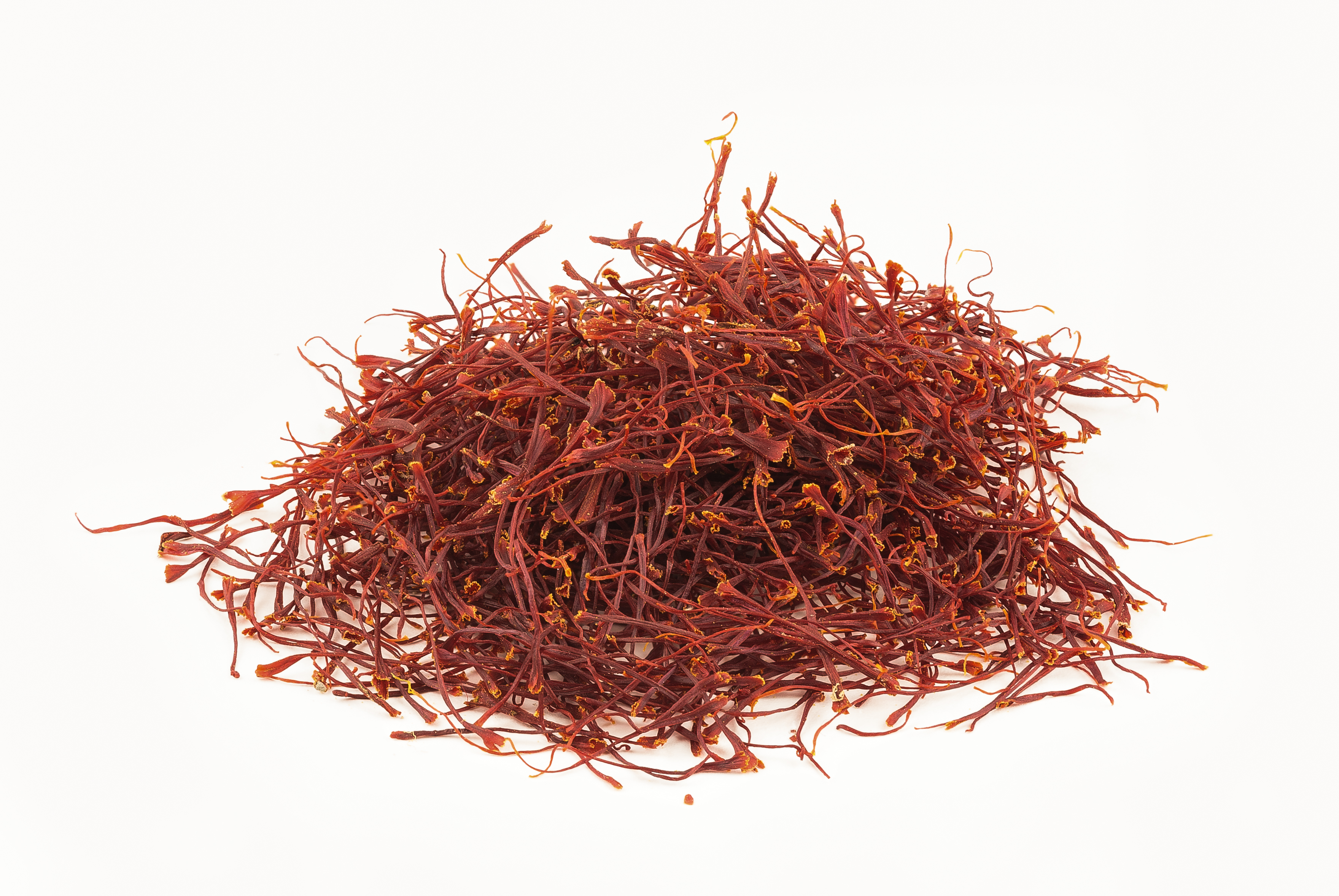 Saffron threads, Weinviertel (producer: Niederreiter), Karmelitermarkt, Vienna, Austria, February 2015